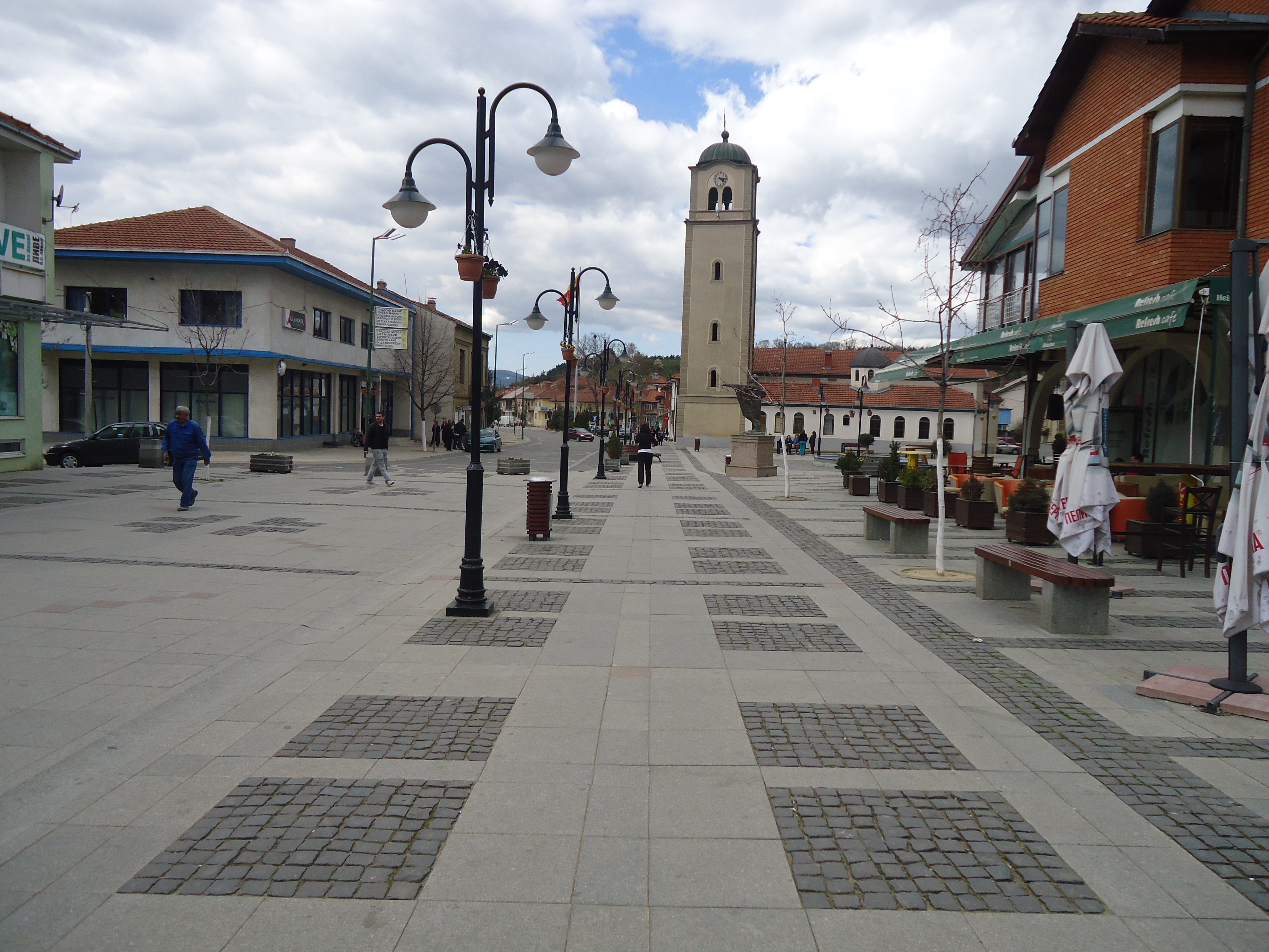 The square in Berovo